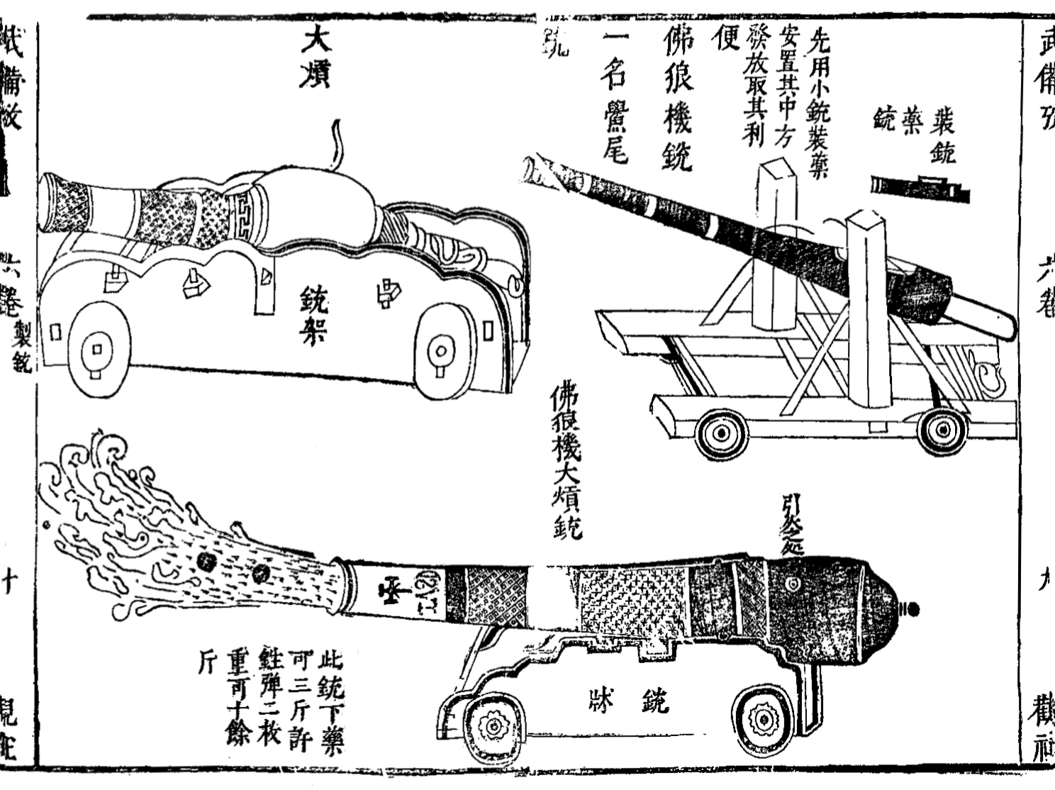 fagong, fo lang ji, hong yi pao 1620 - Jingguo Xionglue